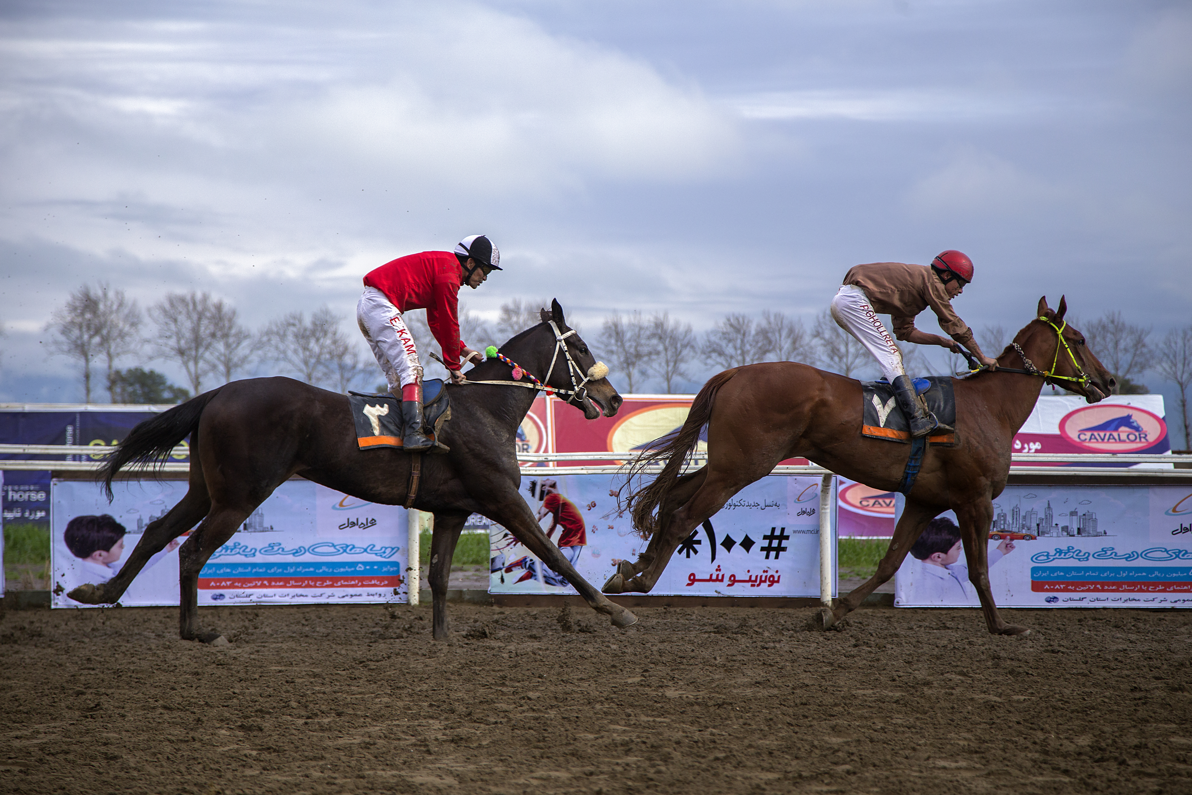 Horse racing is an equestrian performance sport, typically involving two or more horses ridden by jockeys or driven over a set distance for competition. It is one of the most ancient of all sports and its basic premise – to identify which of two or more horses is the fastest over a set course or distance – has remained unchanged since the earliest times.